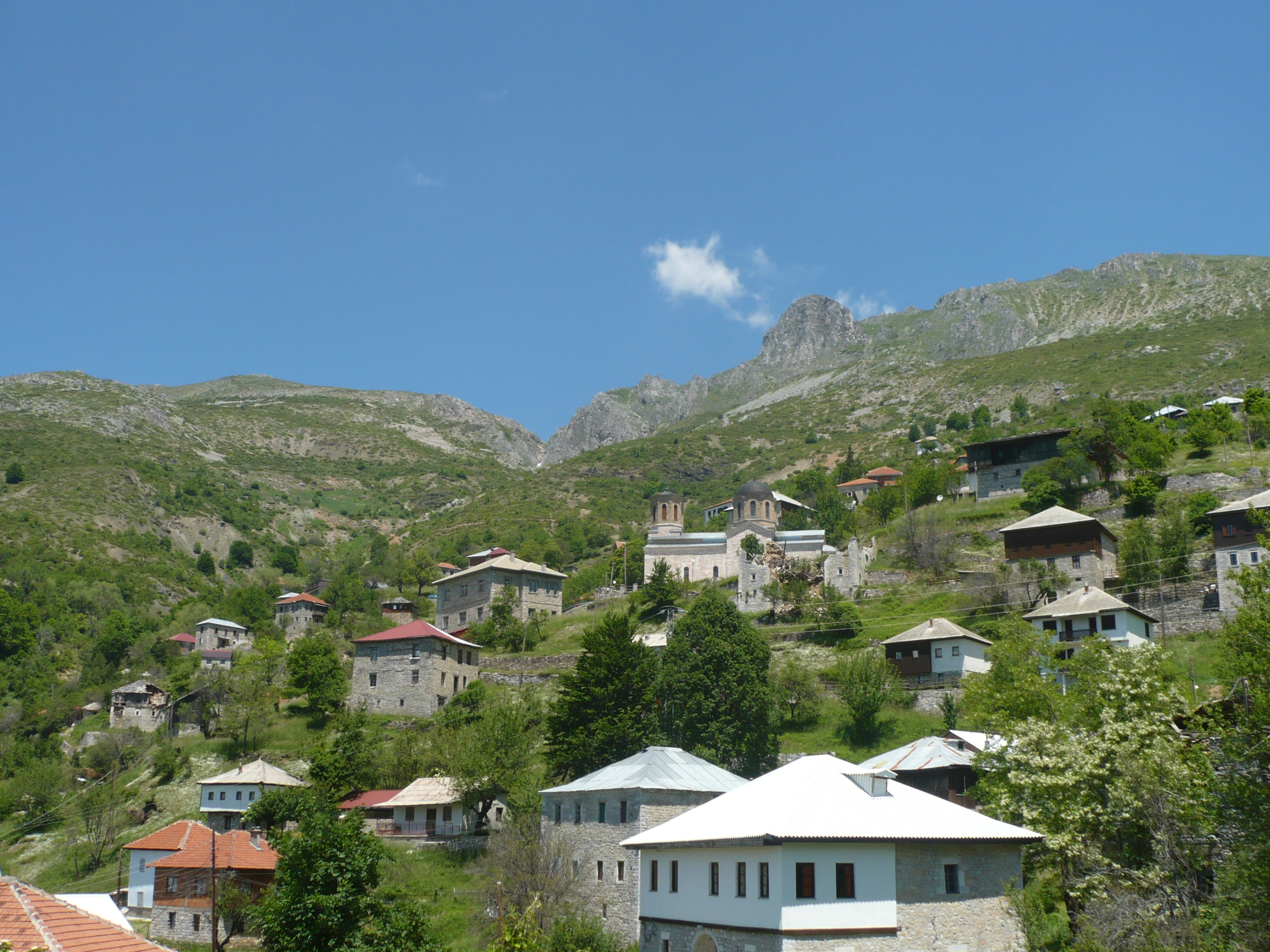 Galičnik, Macedonia, Macedonia Ова е фотографија на природна област во Македонија со код: A02 This is a a photo of a natural area in Macedonia with id: A02